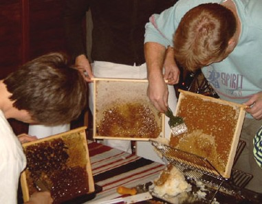 Beewax is capped off the honeycomb before the pure honey can be extracted